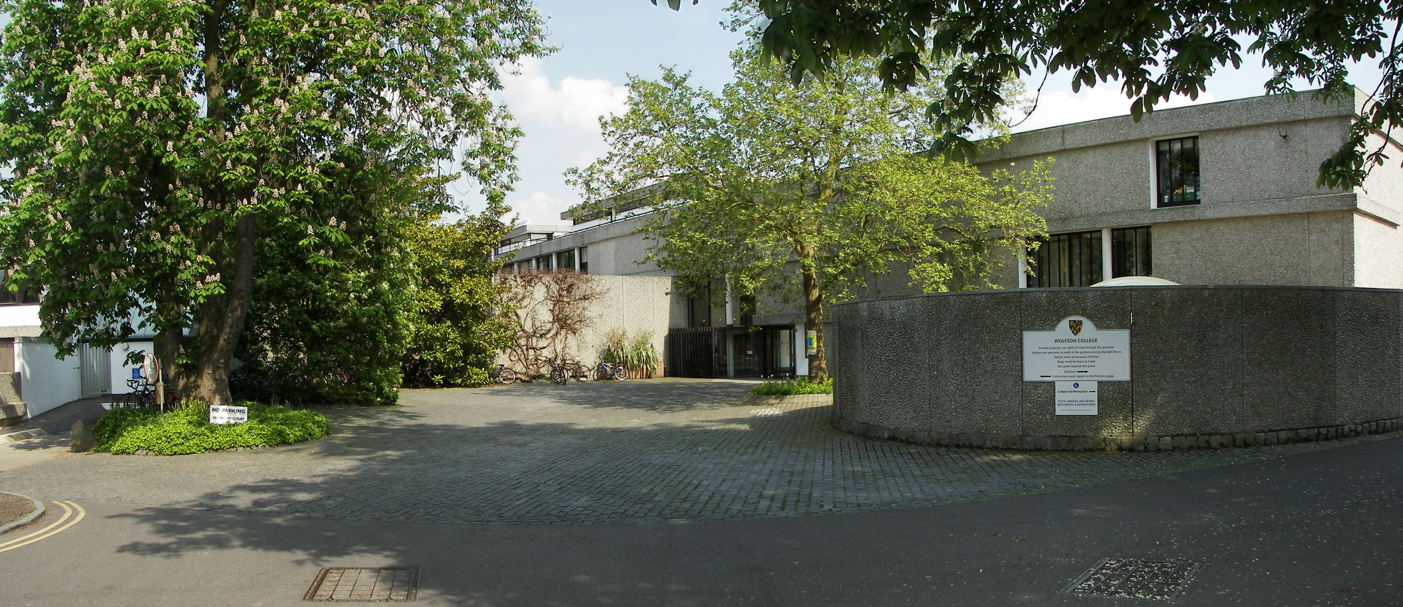 Photo of the forecourt of Wolfson College, Oxford, at the eastern end of Linton Road. The round structure with the sign bearing Wolfson's crest is the bicycle shed*. In the centre the entrance to the porter's lodge can be seen. This image is a stitching of three separate photos, using Autostitch. * Update: the bike shed has been demolished in January 2011 to make space for a new auditorium. A photo of the new situation can be seen here.